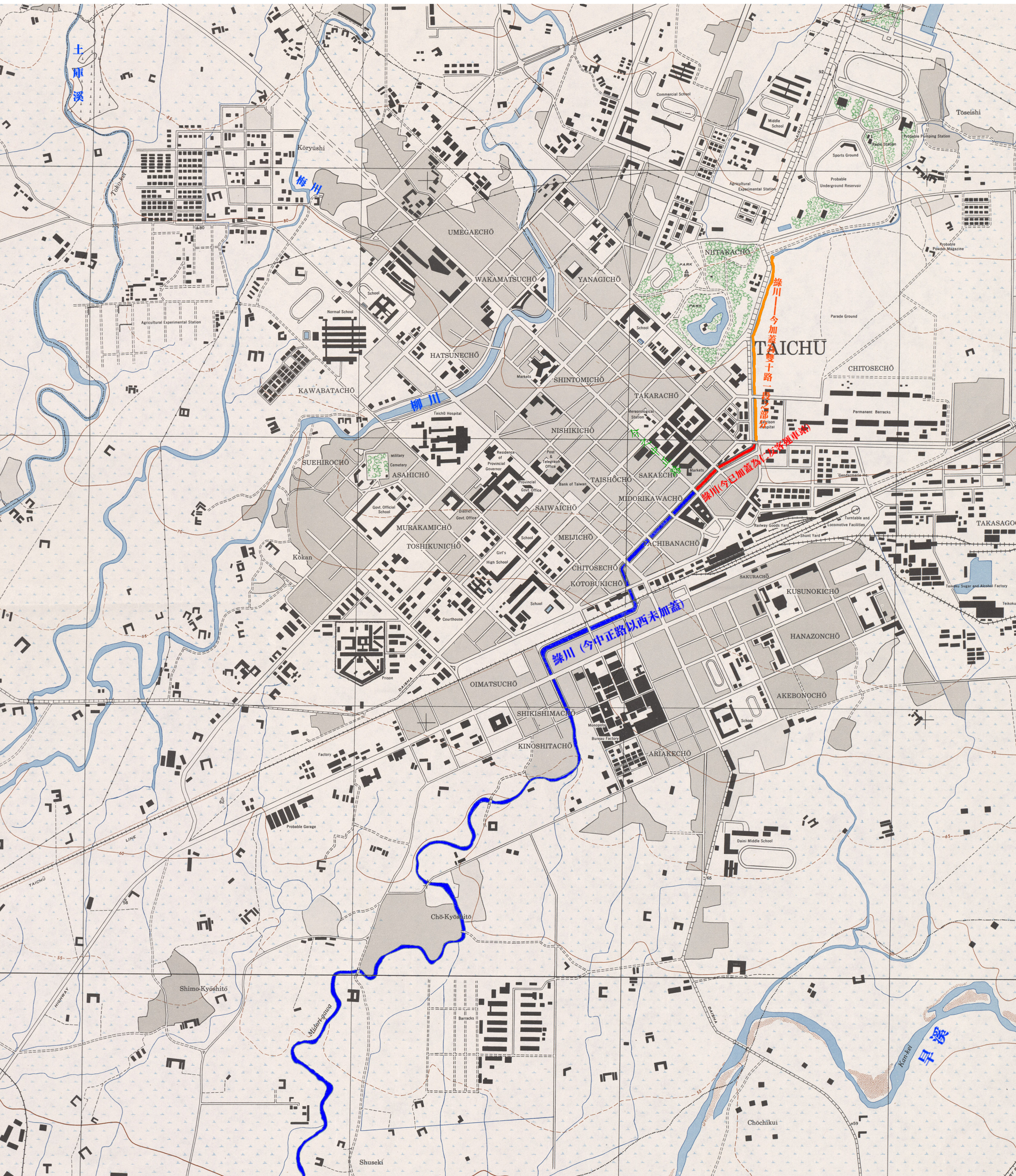 A map of Lyu Chuan,Taichung City,Taiwan(R.O.C.)/台灣台中市綠川地圖